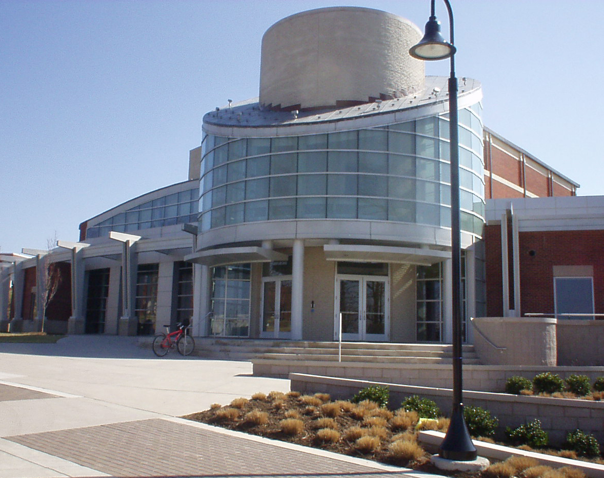 NCSA's Music Building